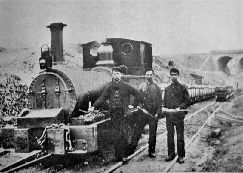 Bottom of Skewen Incline, 1897 published in 'Neath and District - A Symposium' by Ellis Jenkins